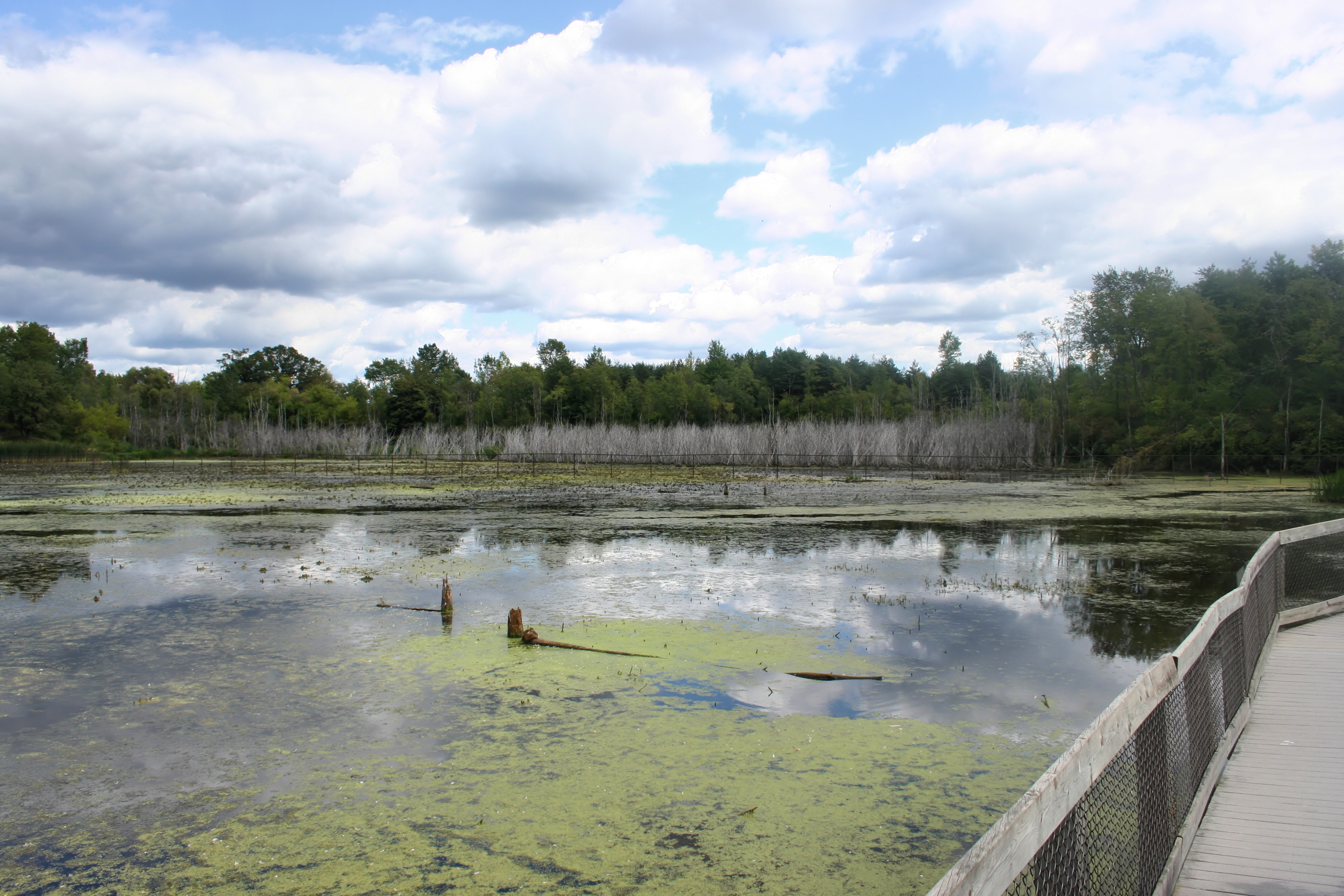 The Wege Nature Trail at the Frederick Meijer Gardens in Grand Rapids, Michigan.